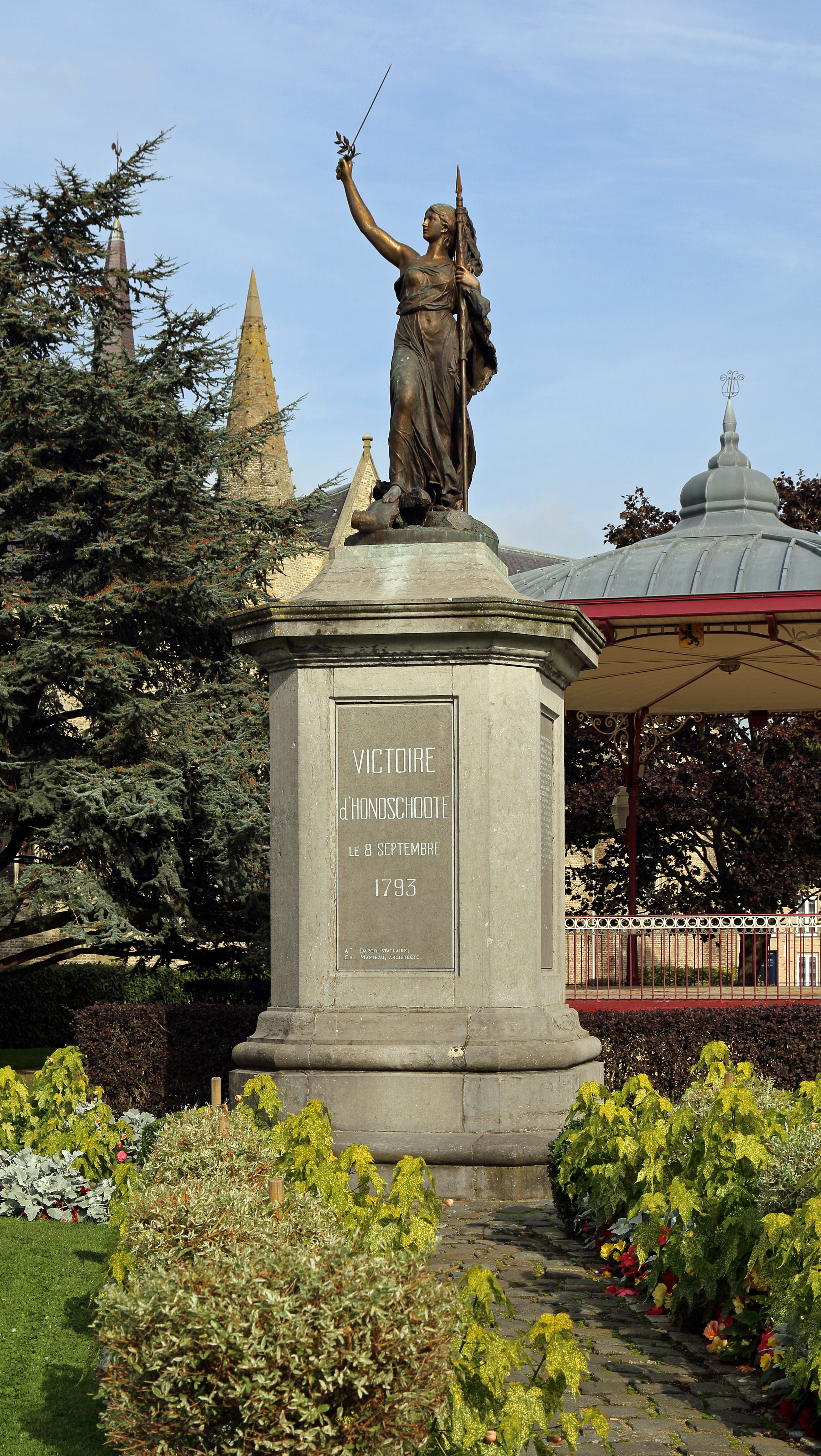 Hondschoote (Nord department, France): memorial for the Battle (and the French victory) of Hondschoote (1793)